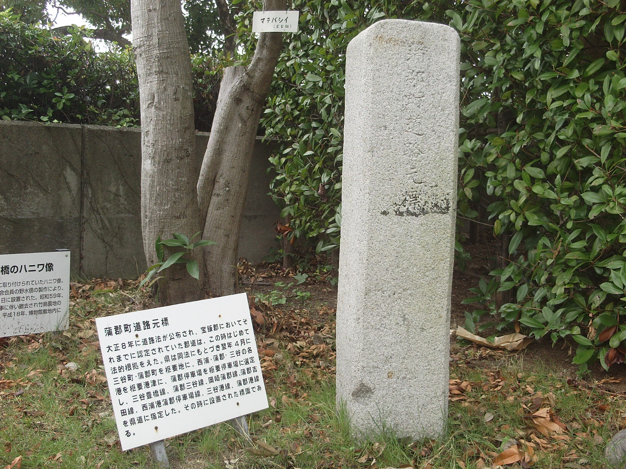 Kilometre zero of Gamagori town. (Gamagori town, Hoi-gun, Aichi.)